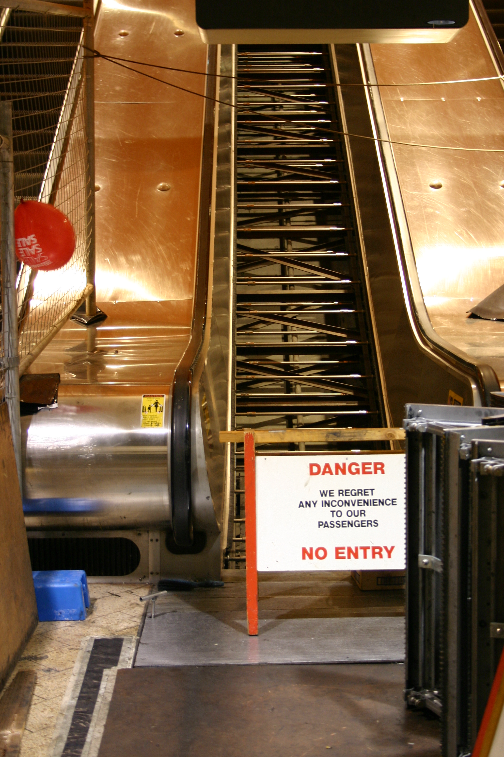 An escalator at Melbourne Central Station receiving maintenance. The steps have been removed, showing internal workings.